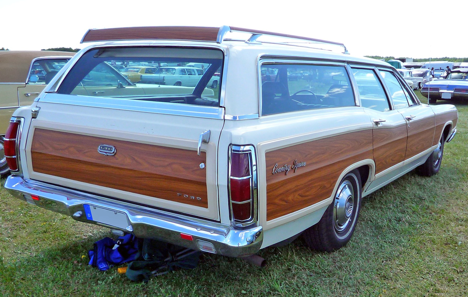 1969 Ford LTD Country Squire with German plates, at Power Big Meet in Sweden 2008